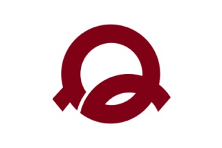 Flag of Yoshino Nara